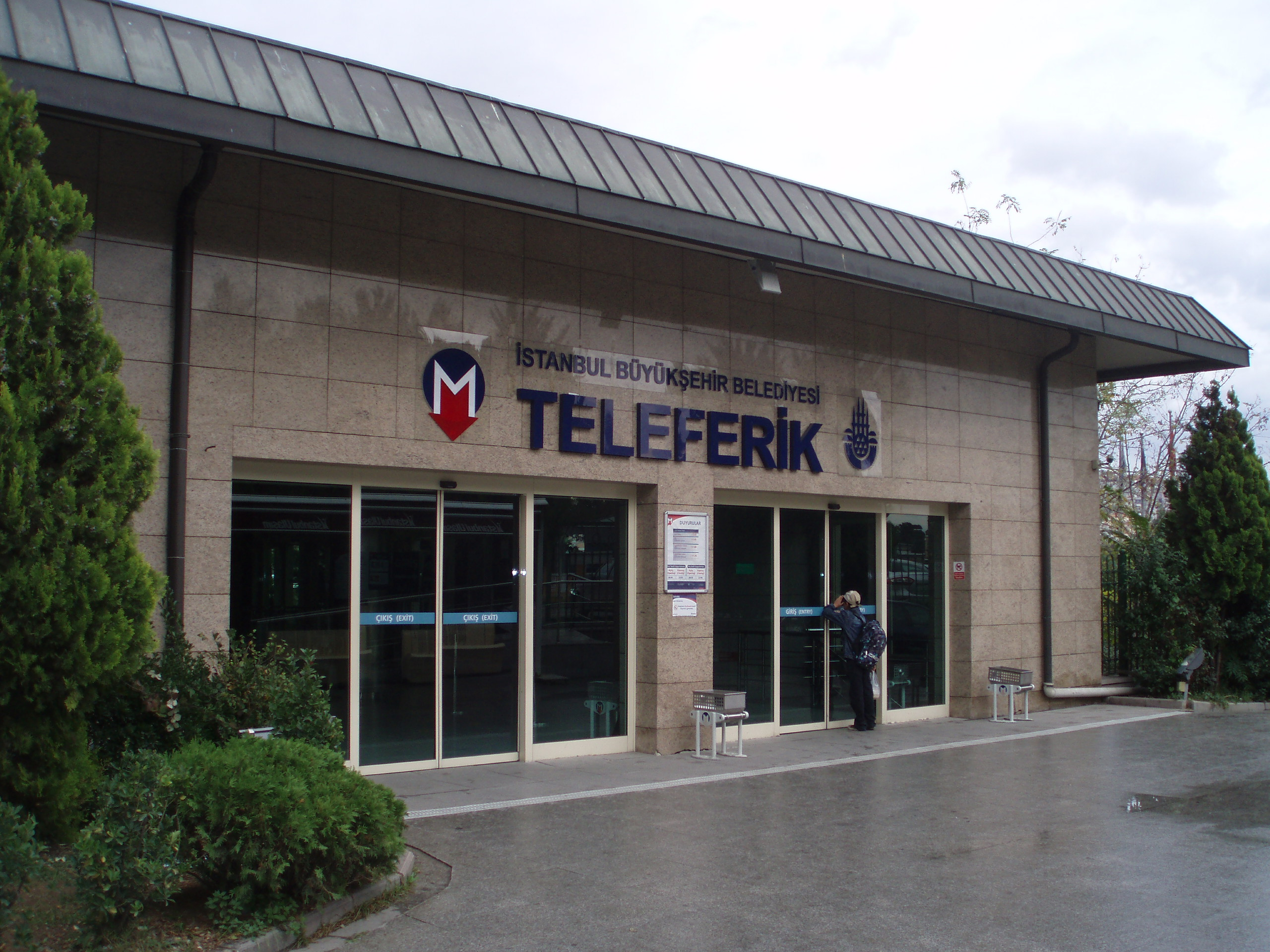 Eyüp Gondola base station